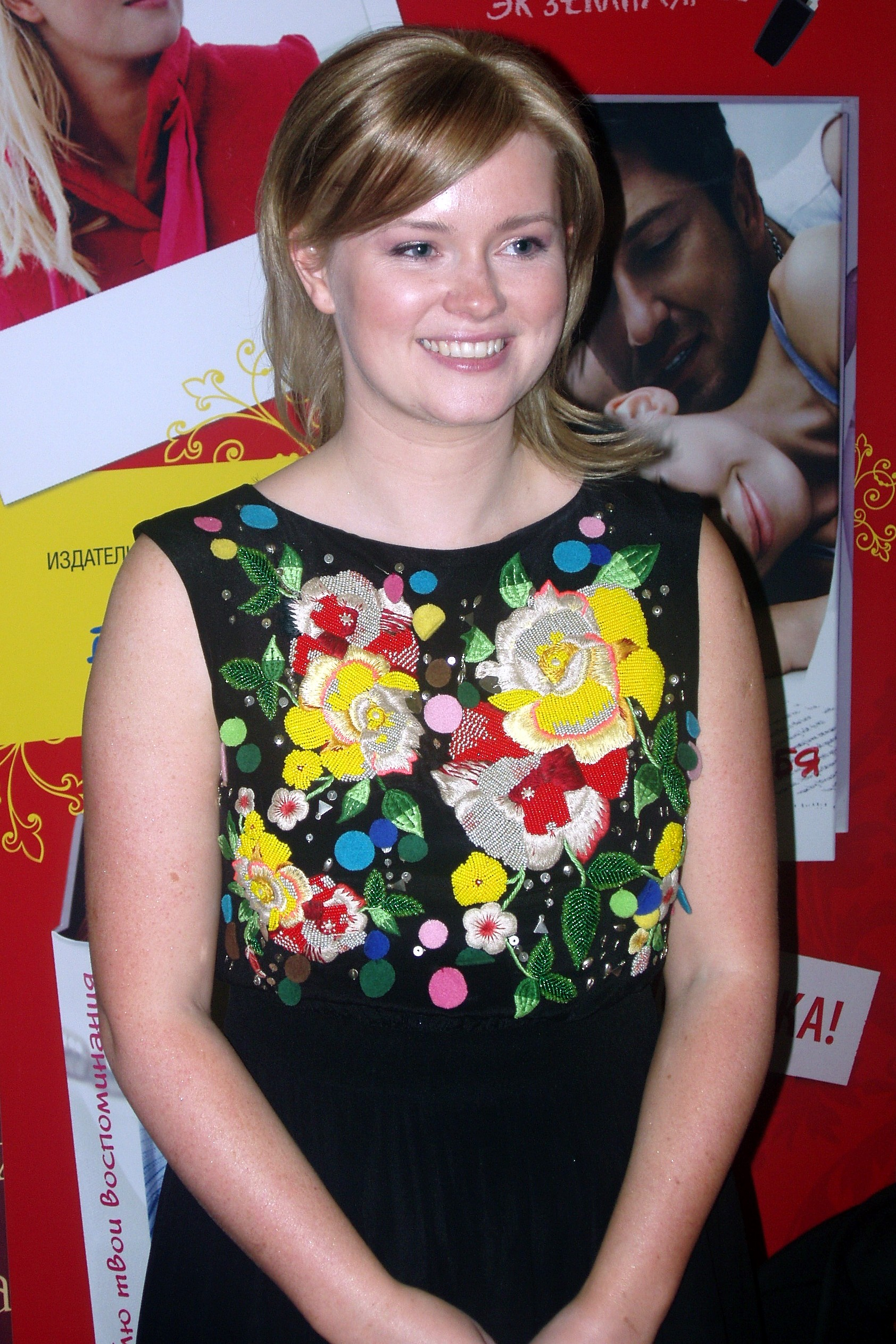 Cecelia Ahern in Moscow (Russia)